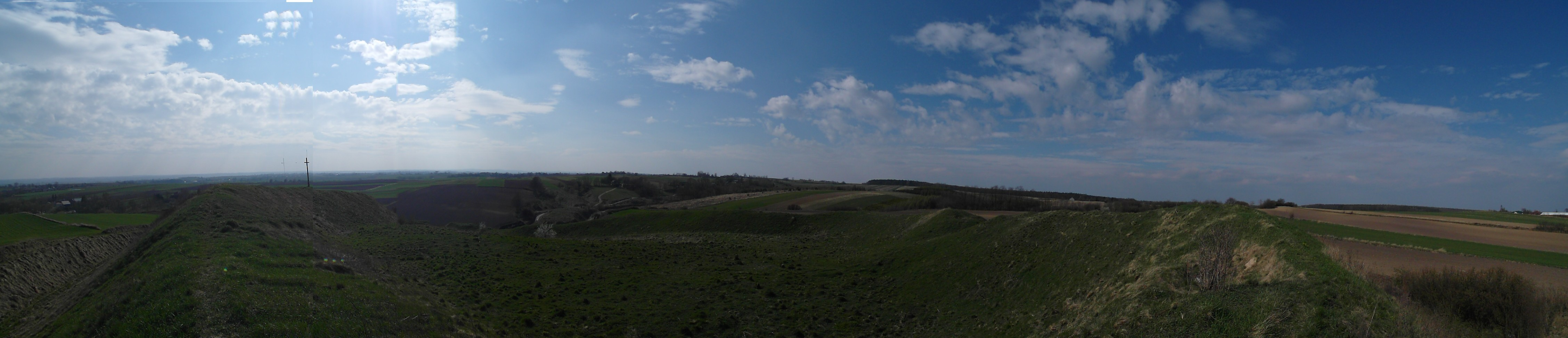 Hill fort in Stradów (IX Century A.D.), Poland